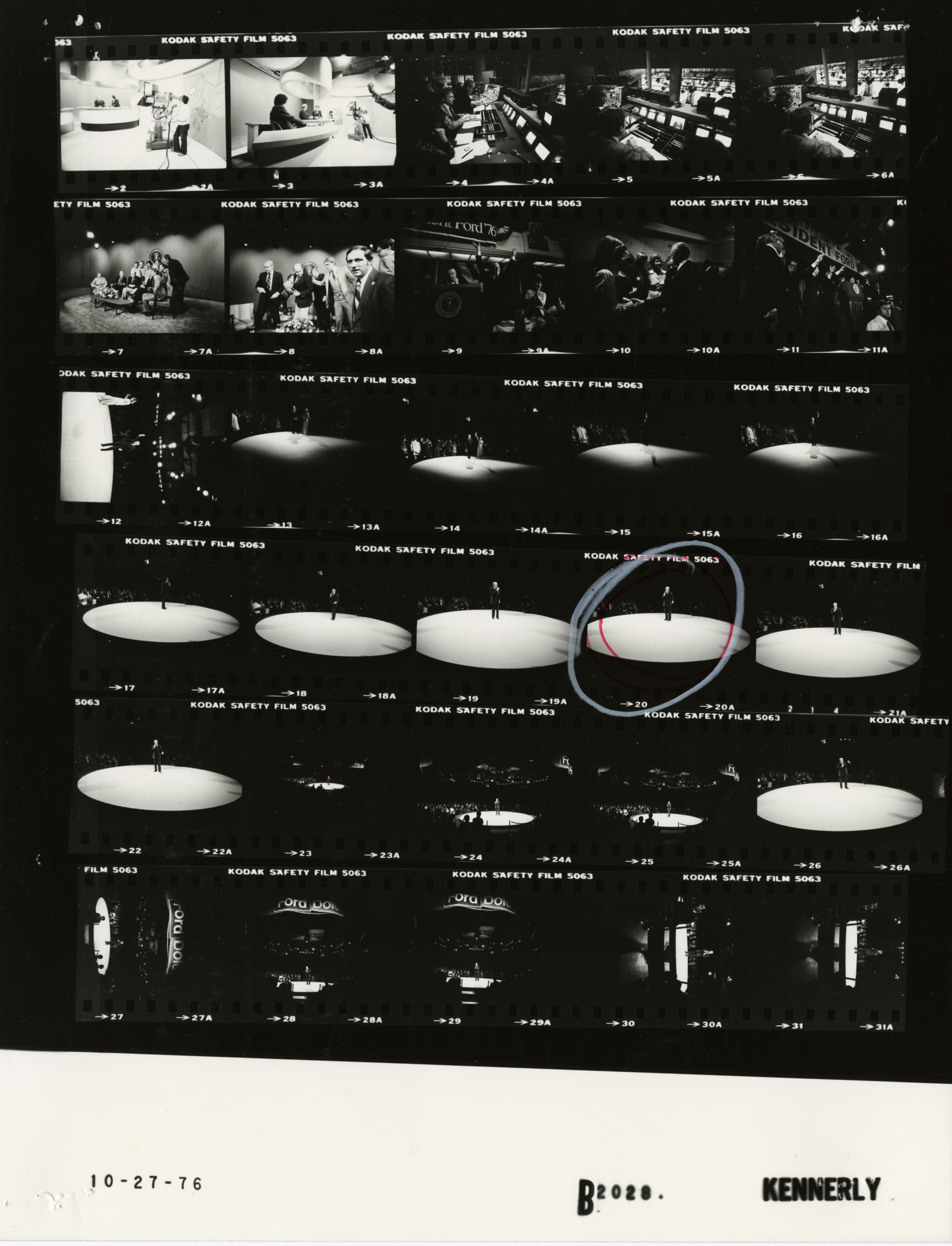 The photo contact sheet, identified as B2028 by the White House Photographic Office (WHPO), is housed at the Gerald R. Ford Presidential Library, a branch of the National Archives and Records Administration (NARA). This file is a 200 dpi photo contact sheet having images from roll of film B2028 of the August 9, 1974 - January 20, 1977 Gerald R. Ford White House Photographic Office Series A0001-A9999 and B0001-B2886 photographs. The date on the photo contact sheet is the date the roll of film was processed, not necessarily the date the photographs were taken. See table below for additional details.